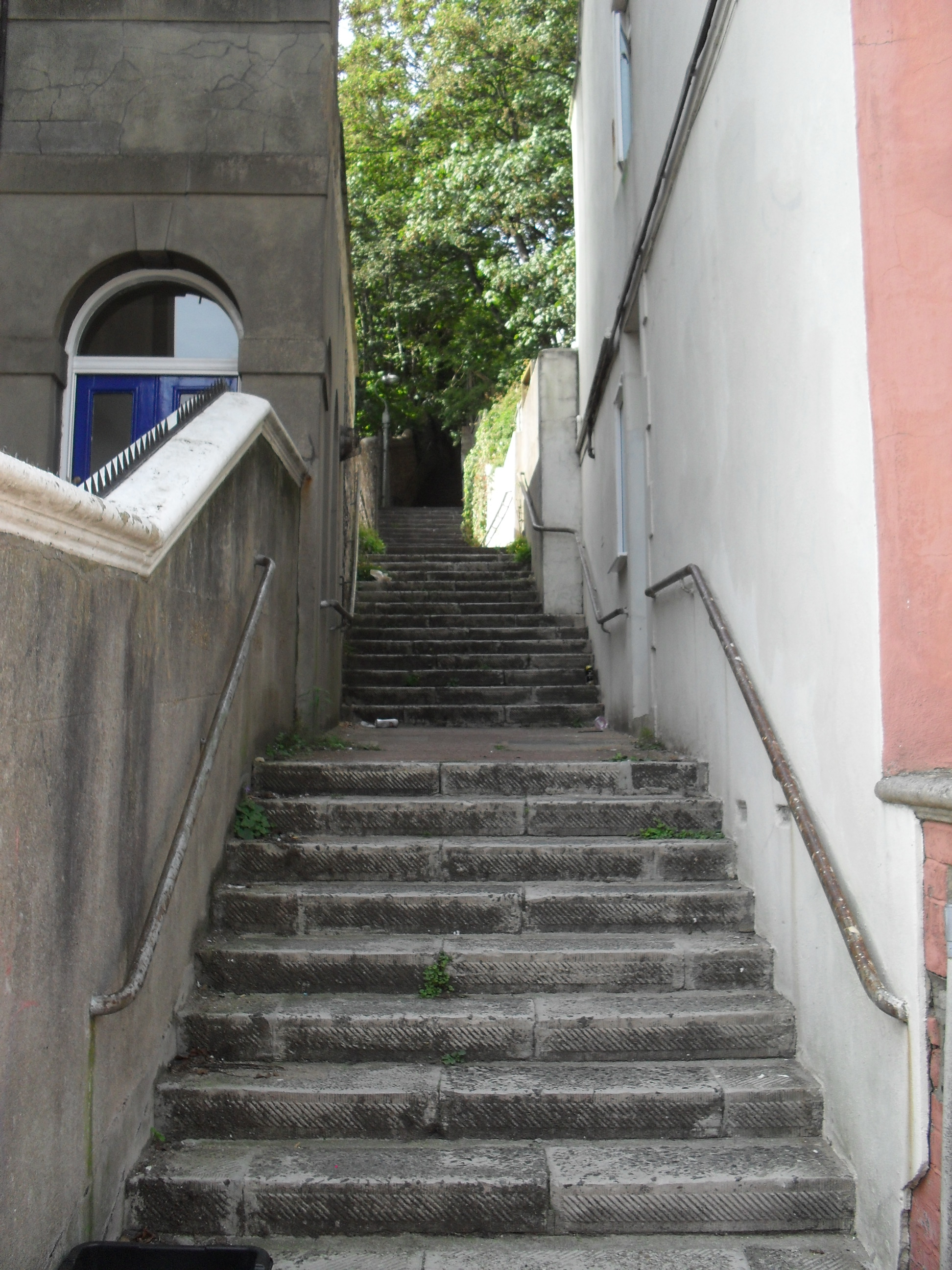 "Cat's creep" (steep footpath in the form of a staircase) between Roundhill Crescent and Richmond Road in the Round Hill area of the City of Brighton and Hove, England. It is called Lennox Place and was laid out in the 1880s.